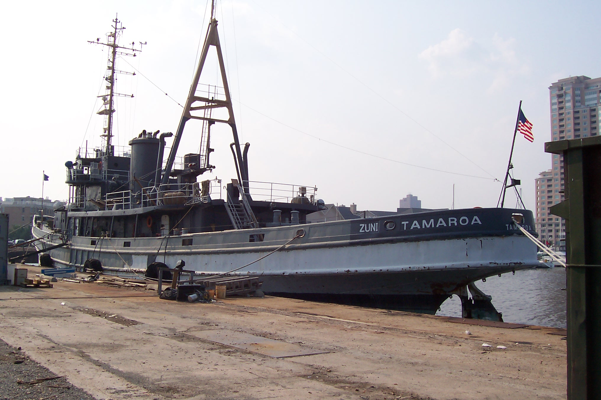 USS Zuni (ATF95) as MV Zuni at Baltimore inner harbour Aug 2007, prior to being towed to Norfolk Va